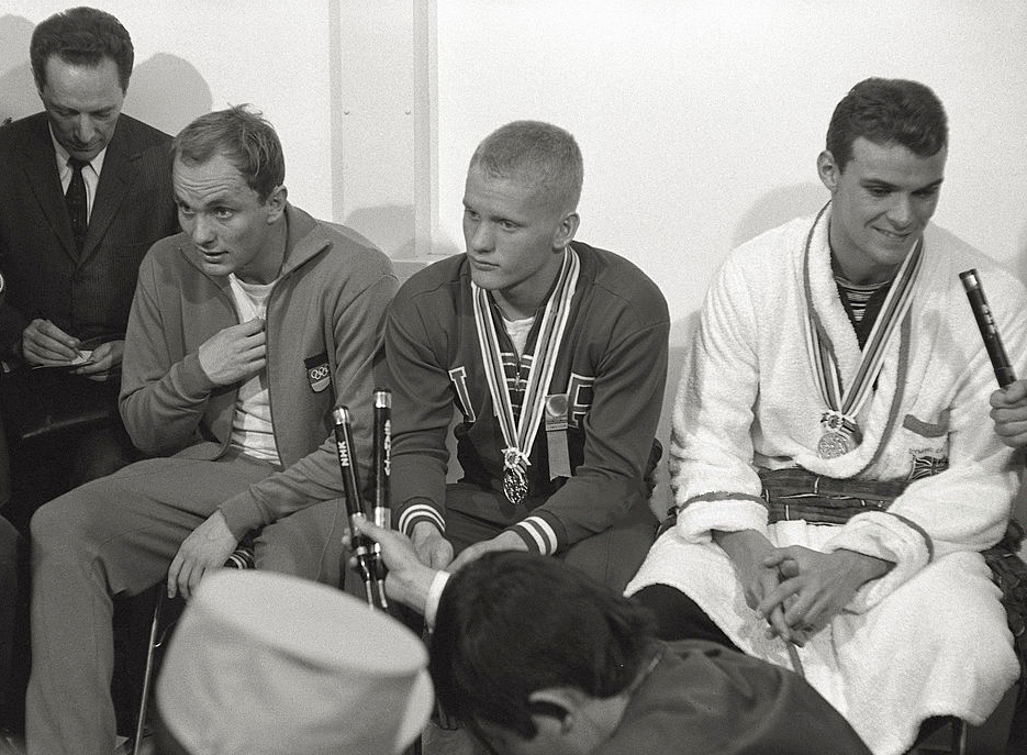 The American swimmer Don Schollander, the British swimmer Robert McGregor and the German swimmer Hans-Joachim Klein are being interviewed by journalists during the Tokyo Olympics. Tokyo, October 1964